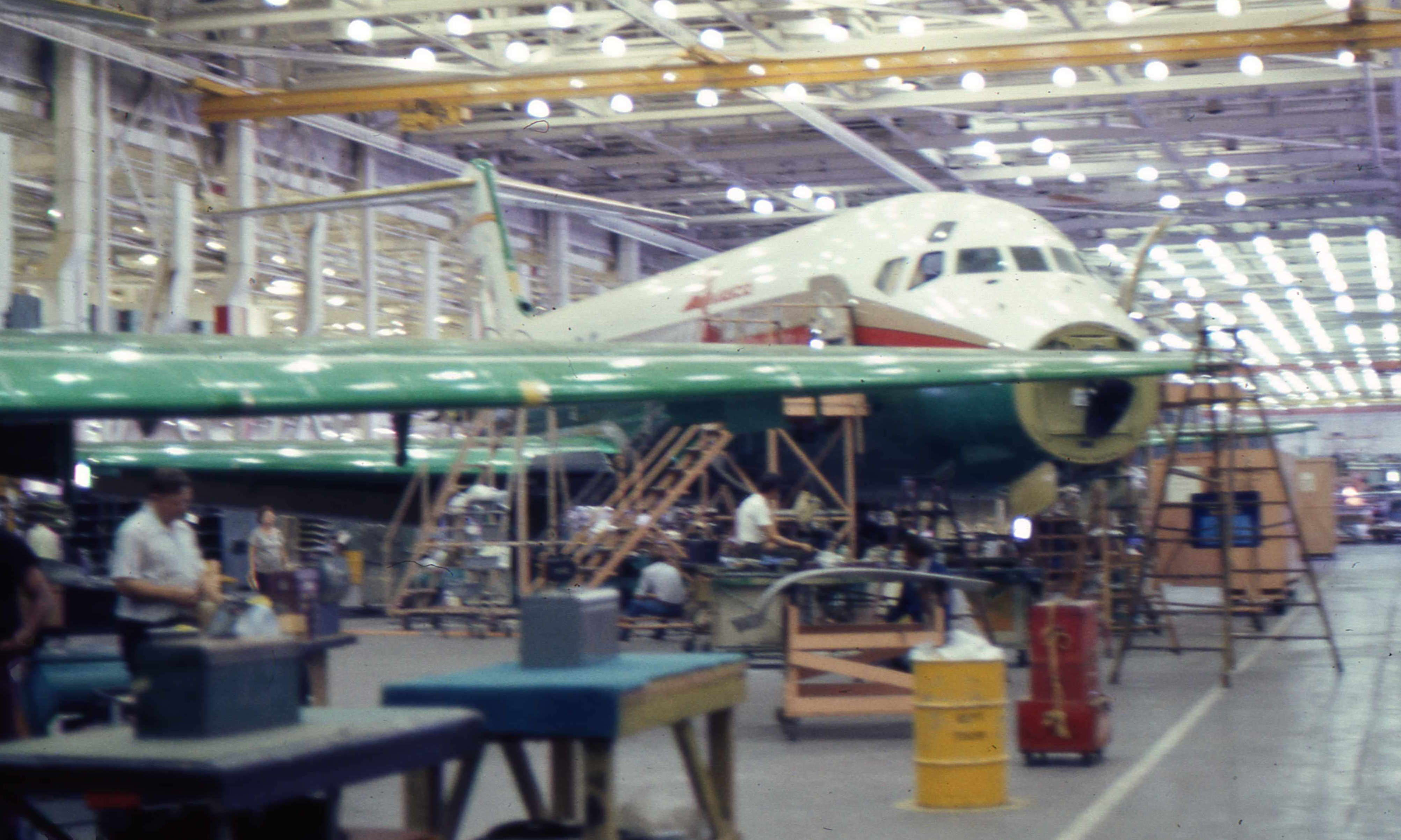 United States of America, California, Long Beach Airport, McDonnell Douglas. The plant where has been assembled the DC-9 and the DC-10.